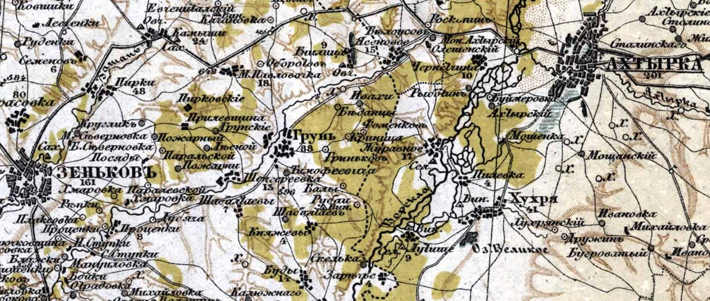 The small town Grun' 'Zinkiv County on the map in 1916